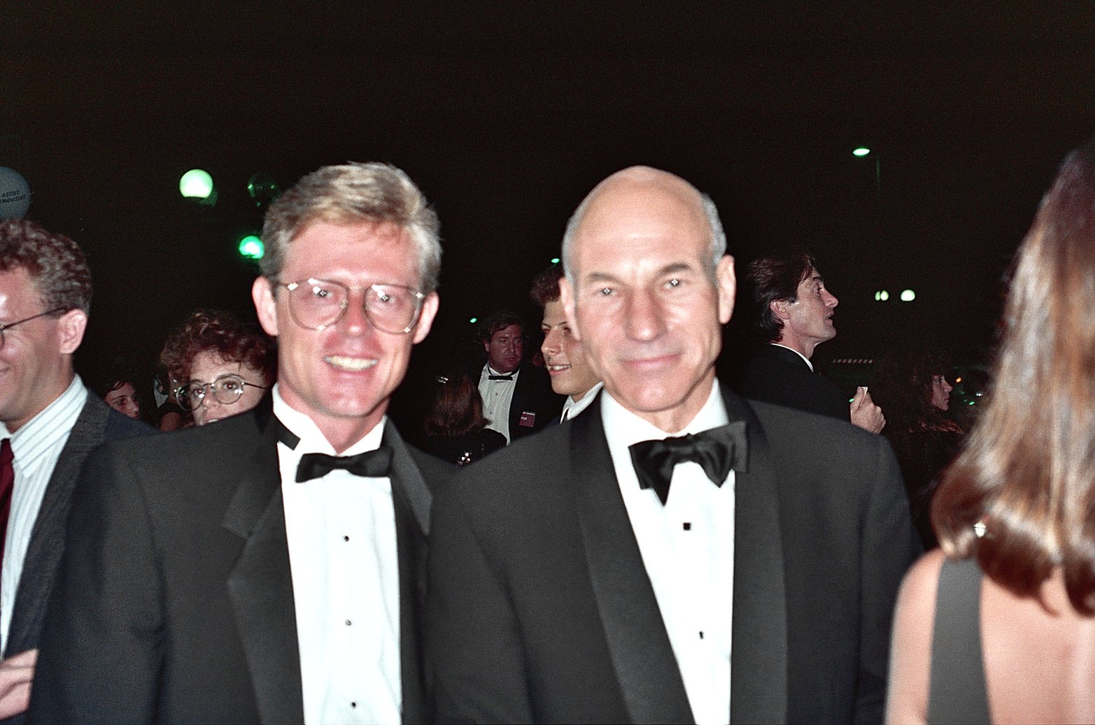 1990 Emmy Awards NOTE: Permission granted to copy, publish, broadcast or post any of my photos, but please credit "photo by Alan Light" if you can. Thanks. Scanned from the original 35MM film negative.